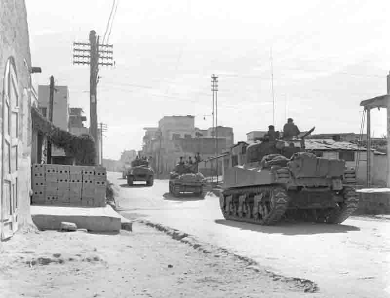 Israeli tanks in Gaza during Operation Kadesh, 1956